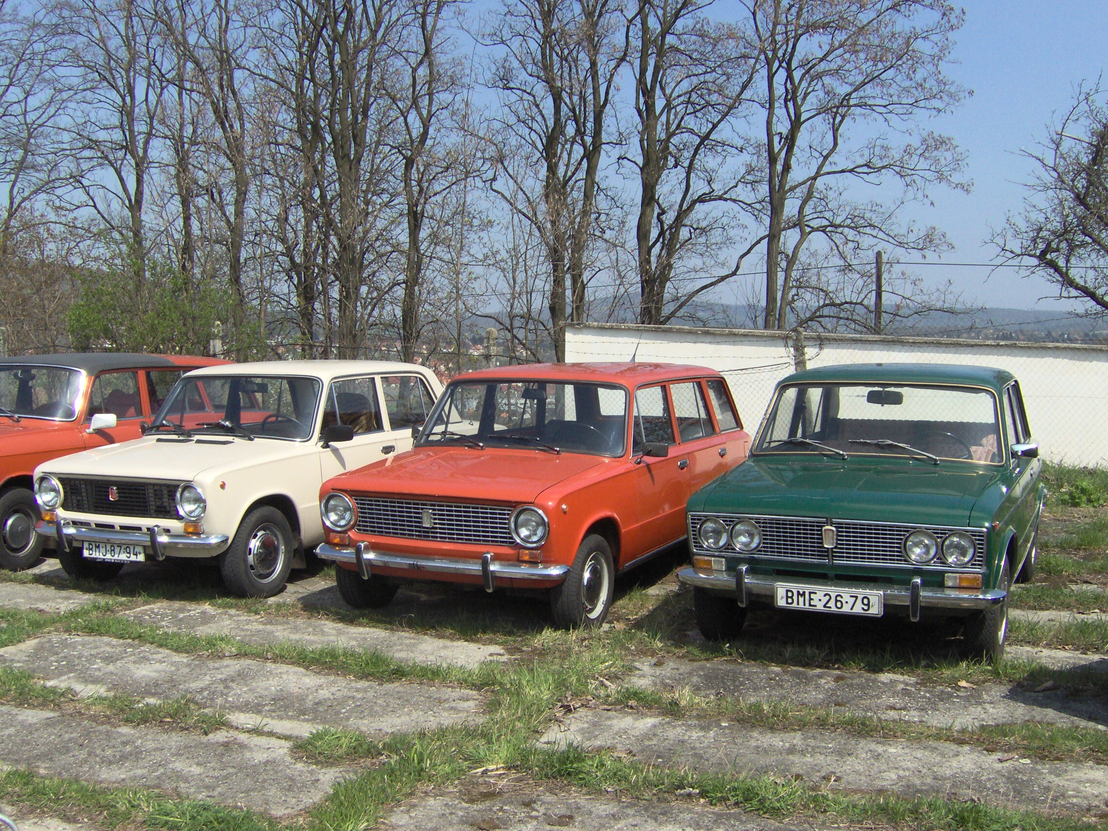 From left to right: Lada 2101 (made in 1980), Lada 2102 (made in 1984) a Lada 2103 (made in 1976) in Brno, Czech Republic